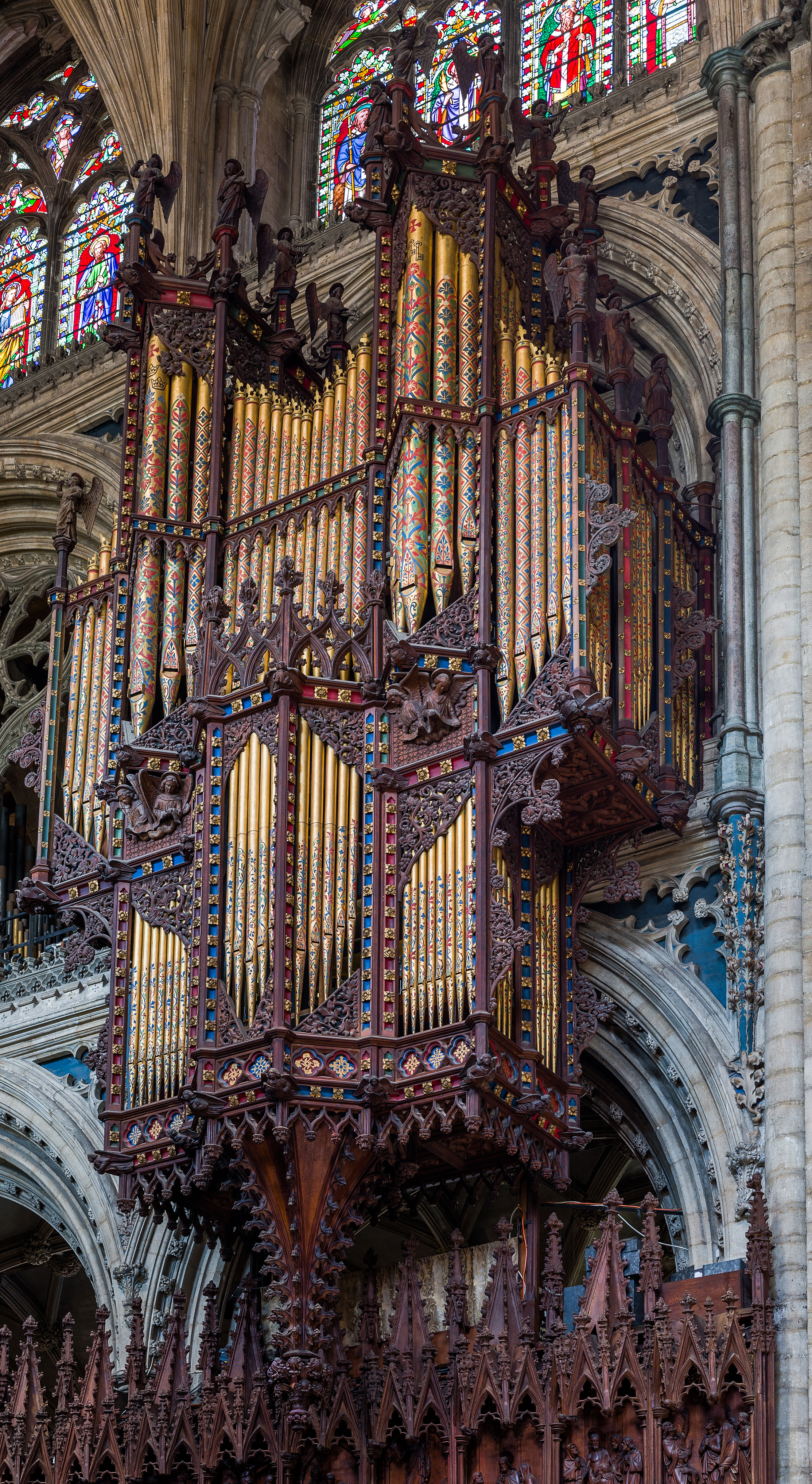 The organ of Ely Cathedral, Cambridgeshire, England.